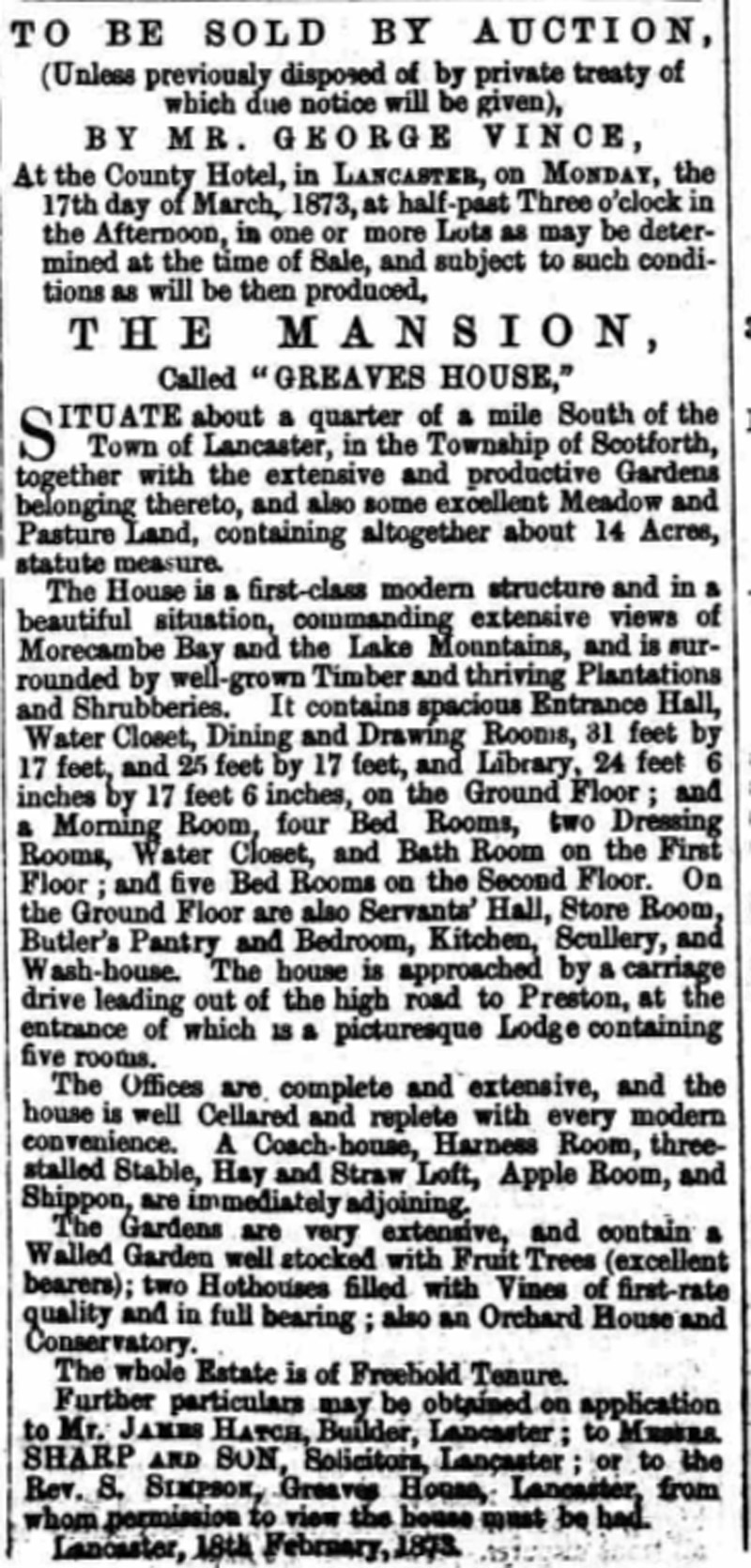 Sale notice for Greaves House, Lancaster, 1873